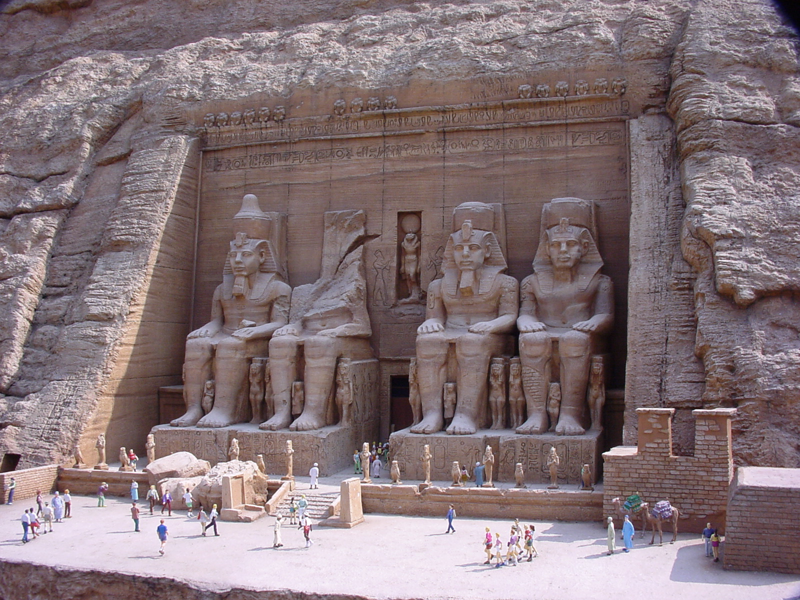 1:25 scale miniature Great Temple of Abu Simbel at Tobu World Square